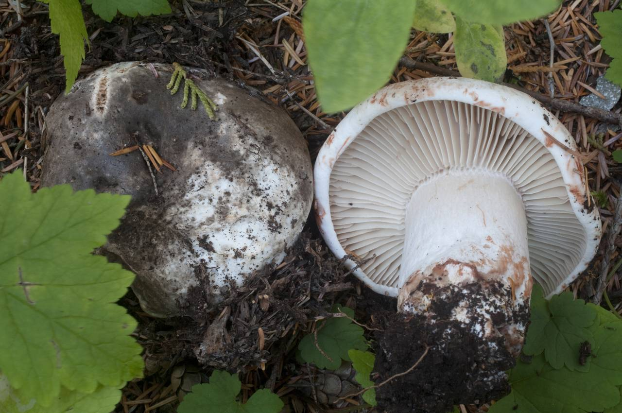 Russula nigricans (Bull.) Fr. Image location: Pend Oreille Co., Washington, USA Recognized by sight For more information about this, see the observation page at Mushroom Observer.